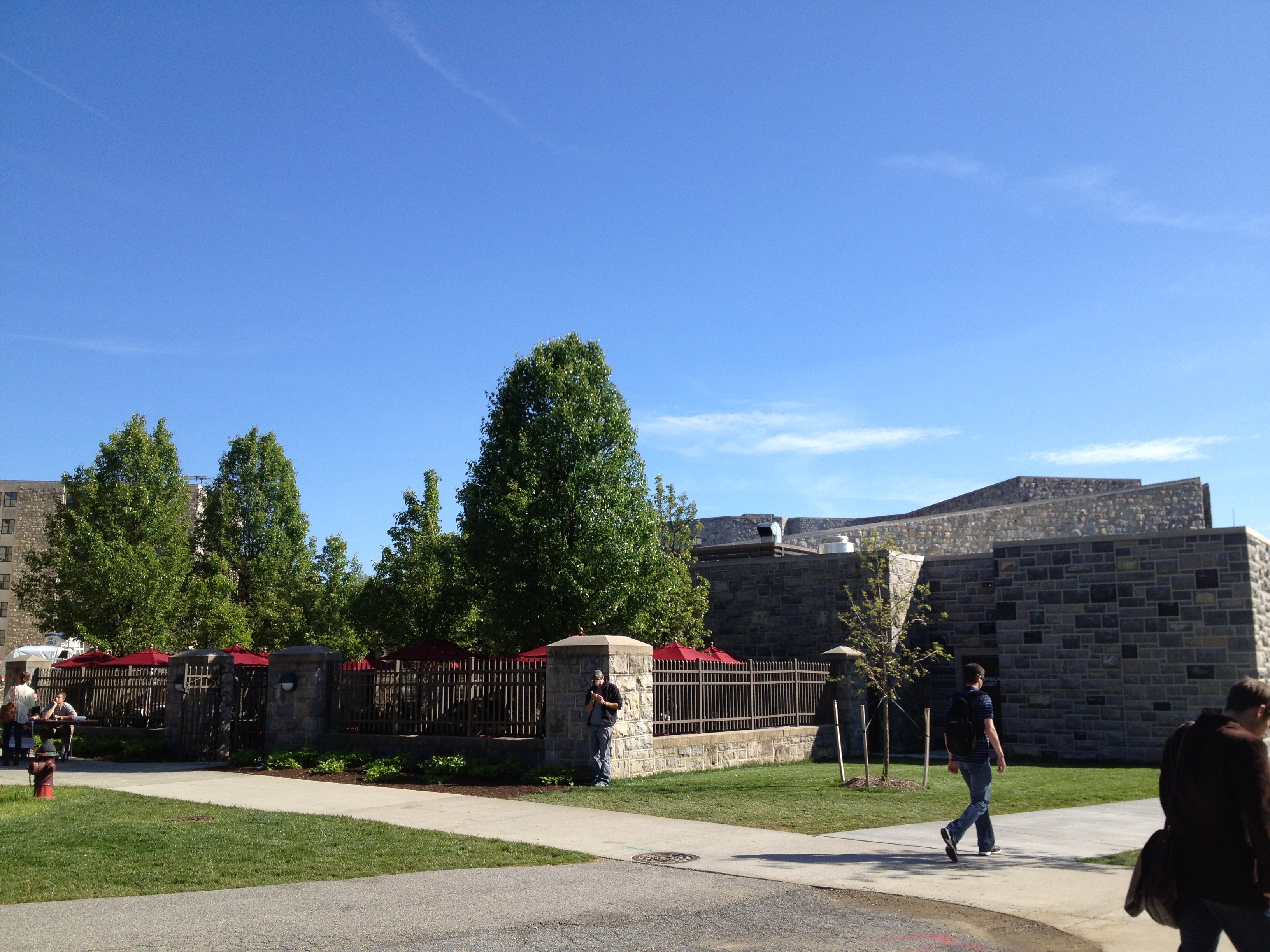 West End Dining Hall, Virginia Tech, Blacksburg, Virginia